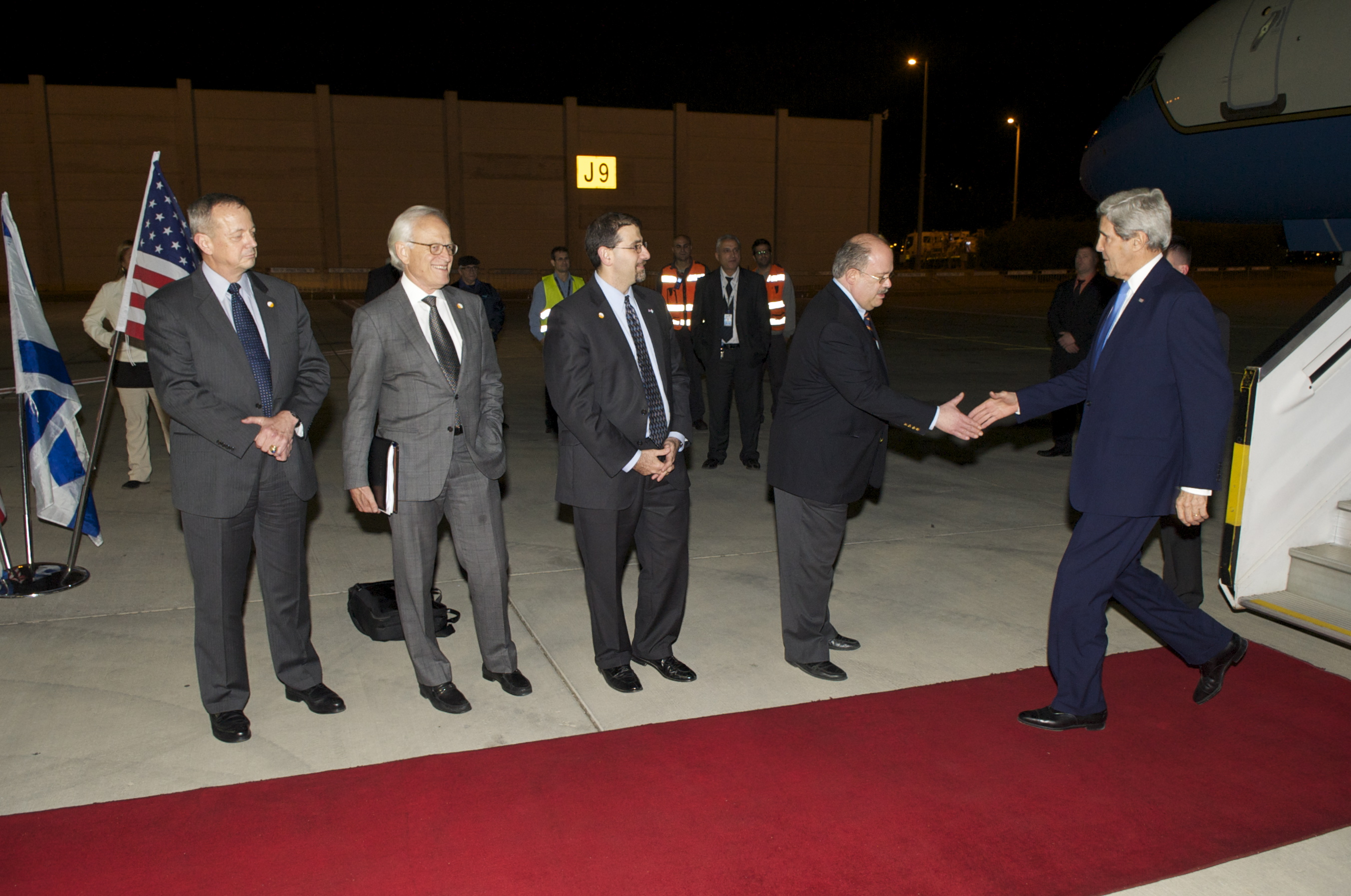 U.S. Secretary of State John Kerry is greeted by Martin Peled-Flax of the Israeli Ministry of Foreign Affairs as he arrives at Ben Gurion International Airport in Tel Aviv on December 4, 2013. Joining him are members of the U.S. Middle East peace negotiating team: former General John Allen, U.S. Special Envoy for Israeli-Palestinian Negotiations Martin Indyk, and U.S. Ambassador to Israel Daniel Shapiro. [State Department photo/ Public Domain]